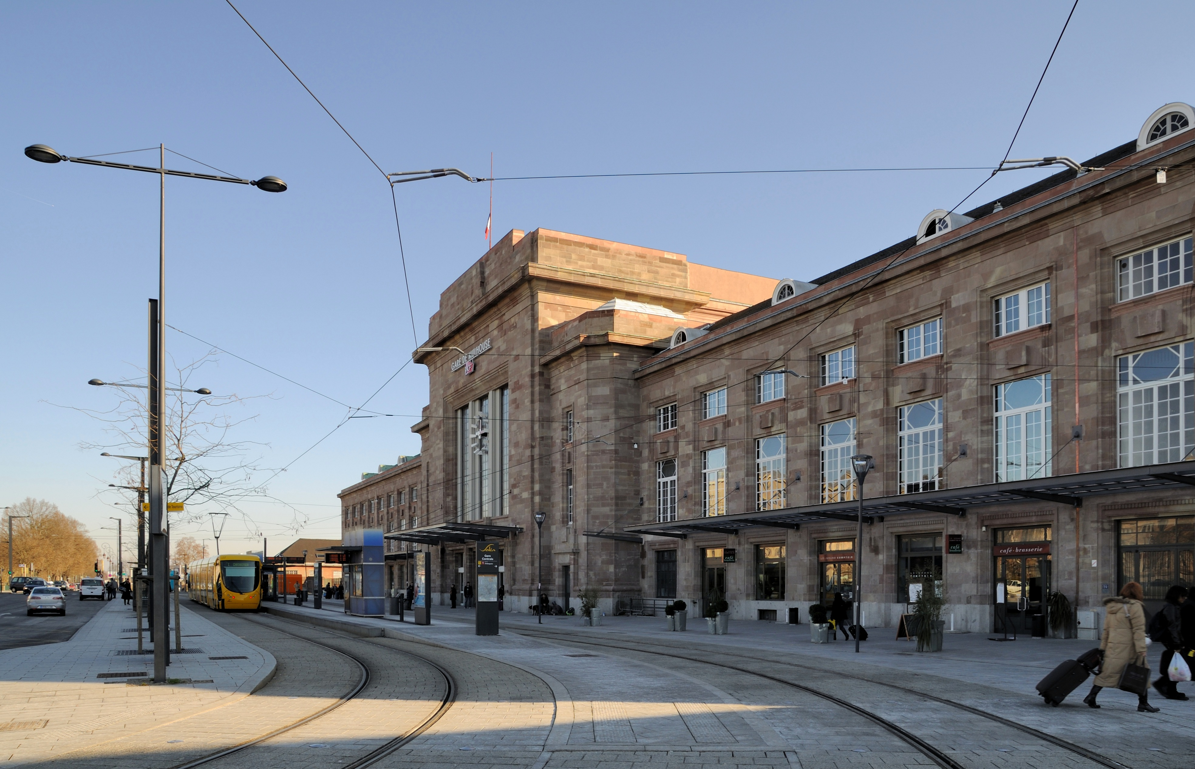 Mulhouse: Railway station.